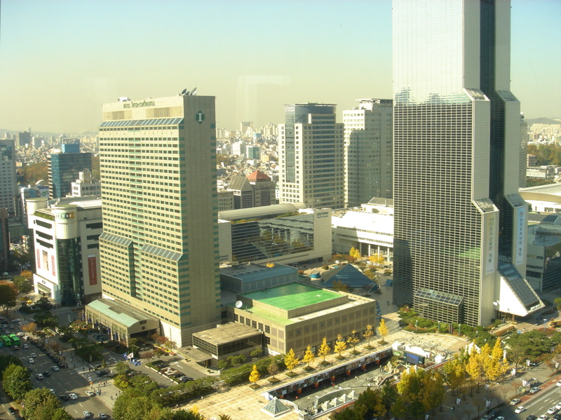 The lowered area in the bottom middle of the photo is the underground shopping centre next to Samseong-dong station; to the right, the big shiny building is the World Trade Centre Seoul.